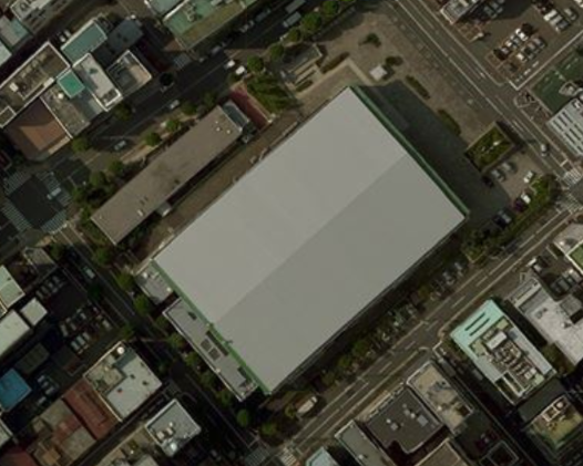 Yokohama Cultural Gymnasium